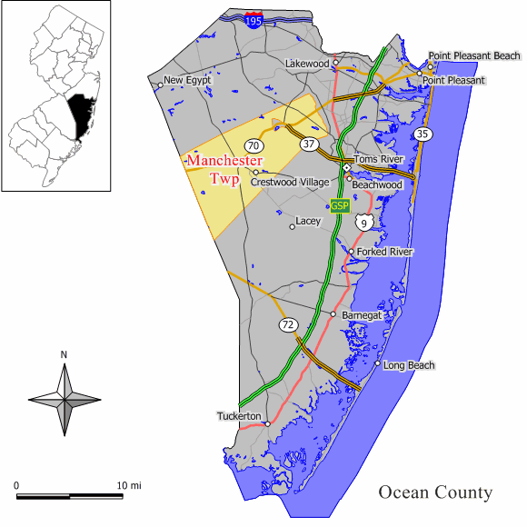 Source: Jim Irwin Original work by Jim Irwin, December 2005.